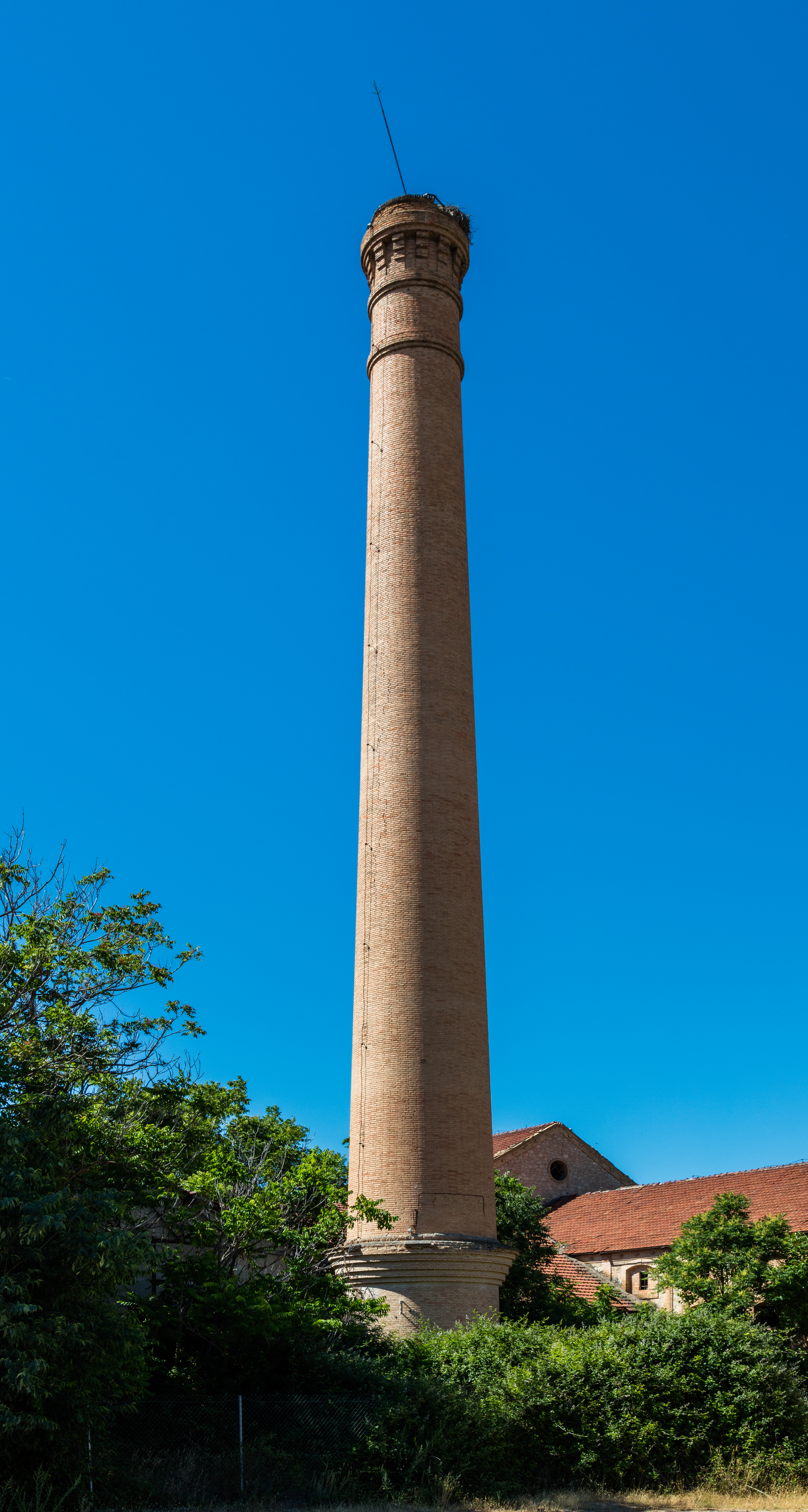 Antigua azucarera labradora, Calatayud, Spain